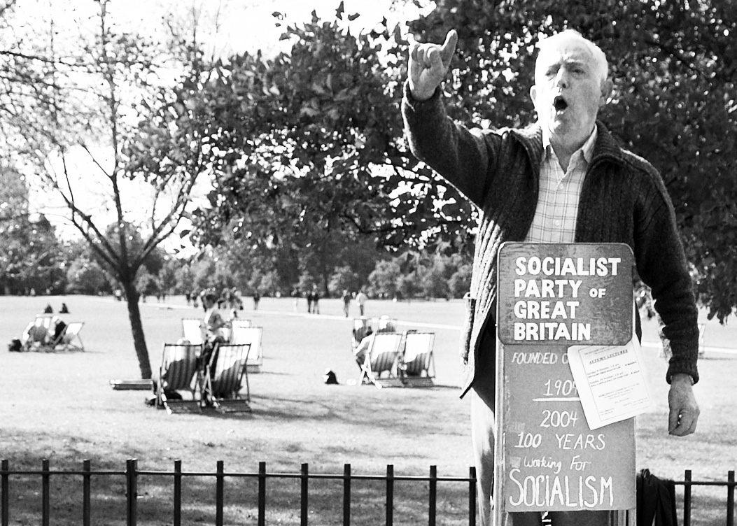 Harry Baldwin, Socialist speaking at speakers corner